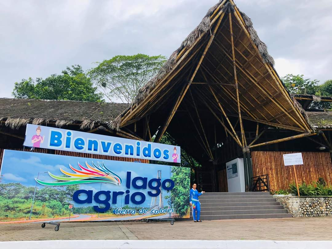 Main entrance to the Nueva Loja Tourist Park